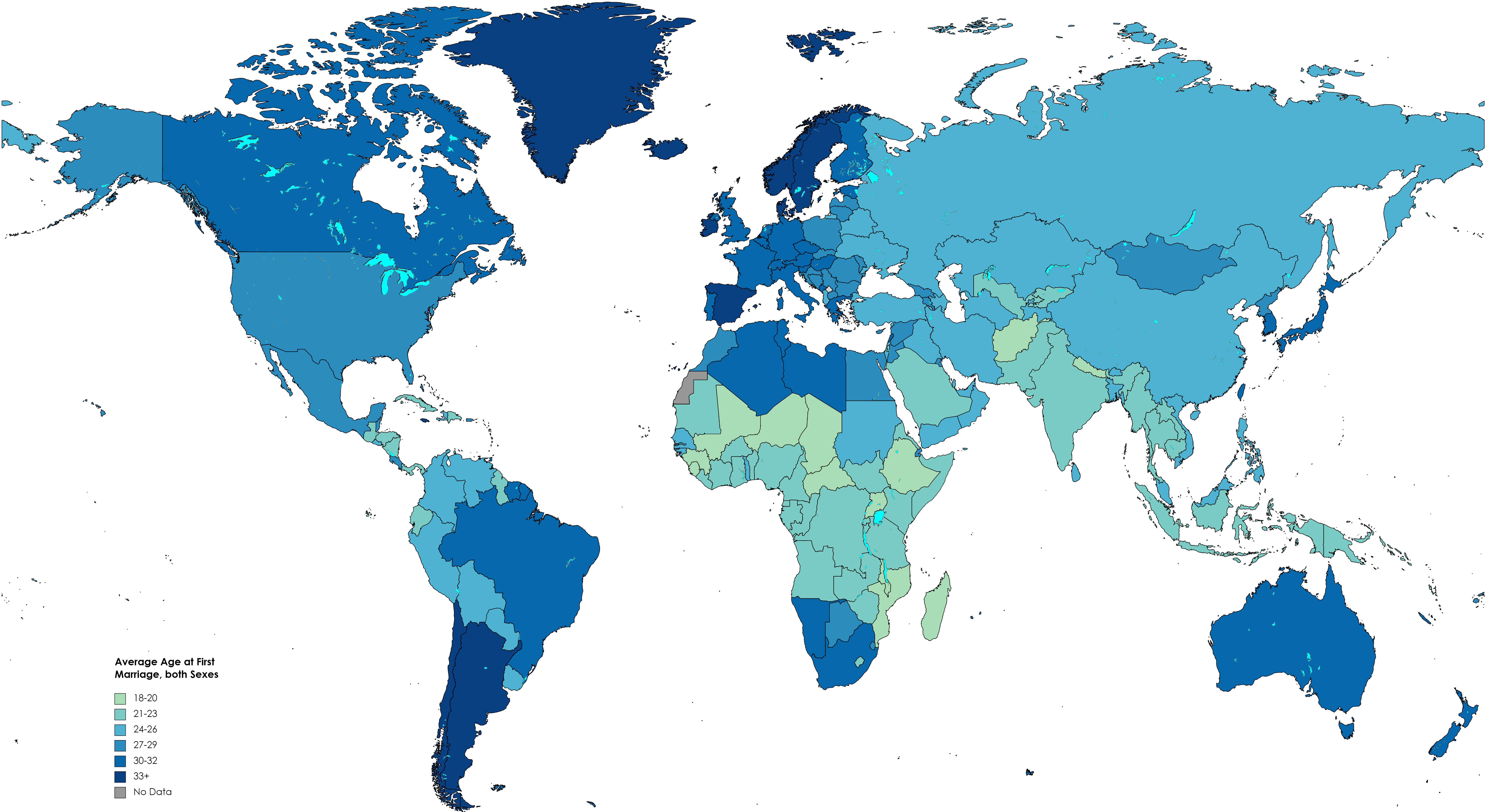 This map shows six three-year categories of the average age of first marriage by country. Dependent territories and the Sahrawi Republic are in grey.